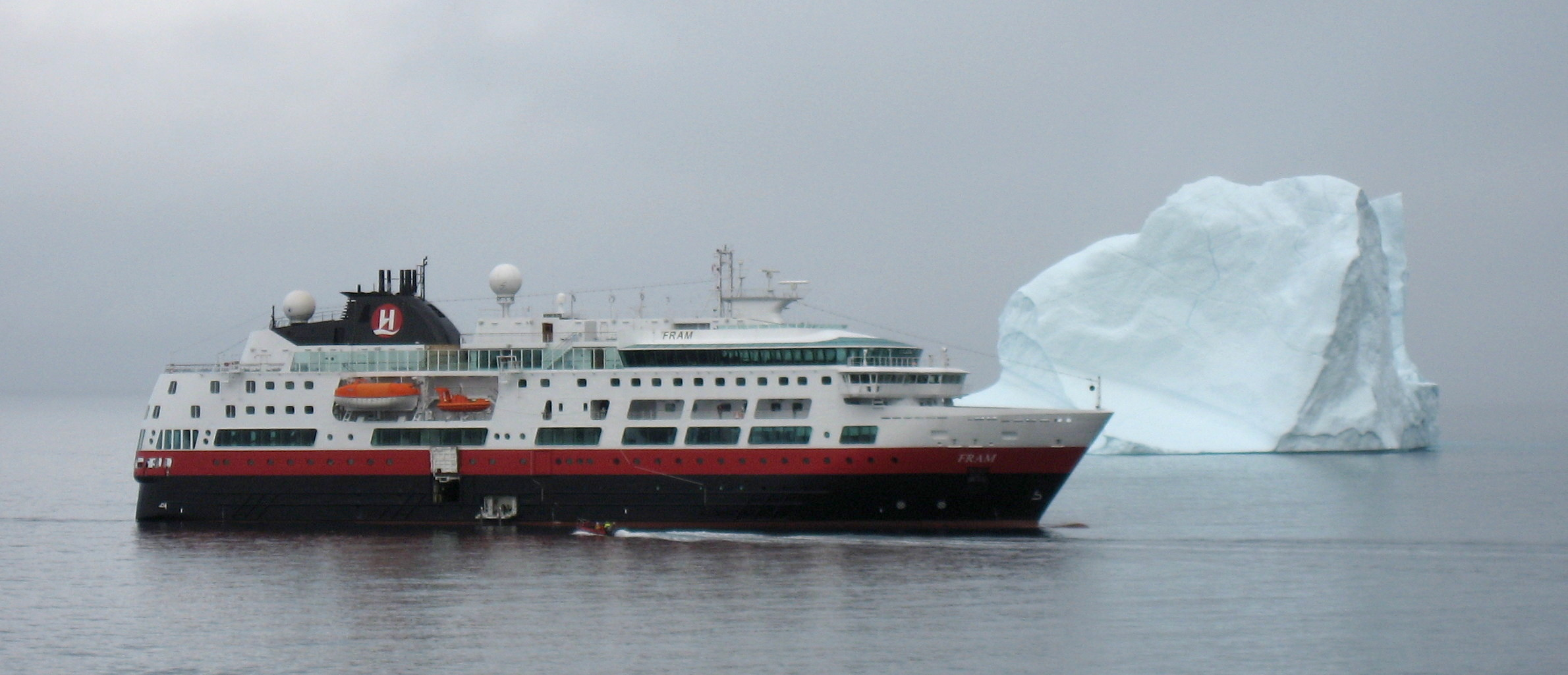 The cruiseliner MS «Fram» on its maiden voyage anchored in front of iceberg at the harbour entrance in Upernavik, Greenland.